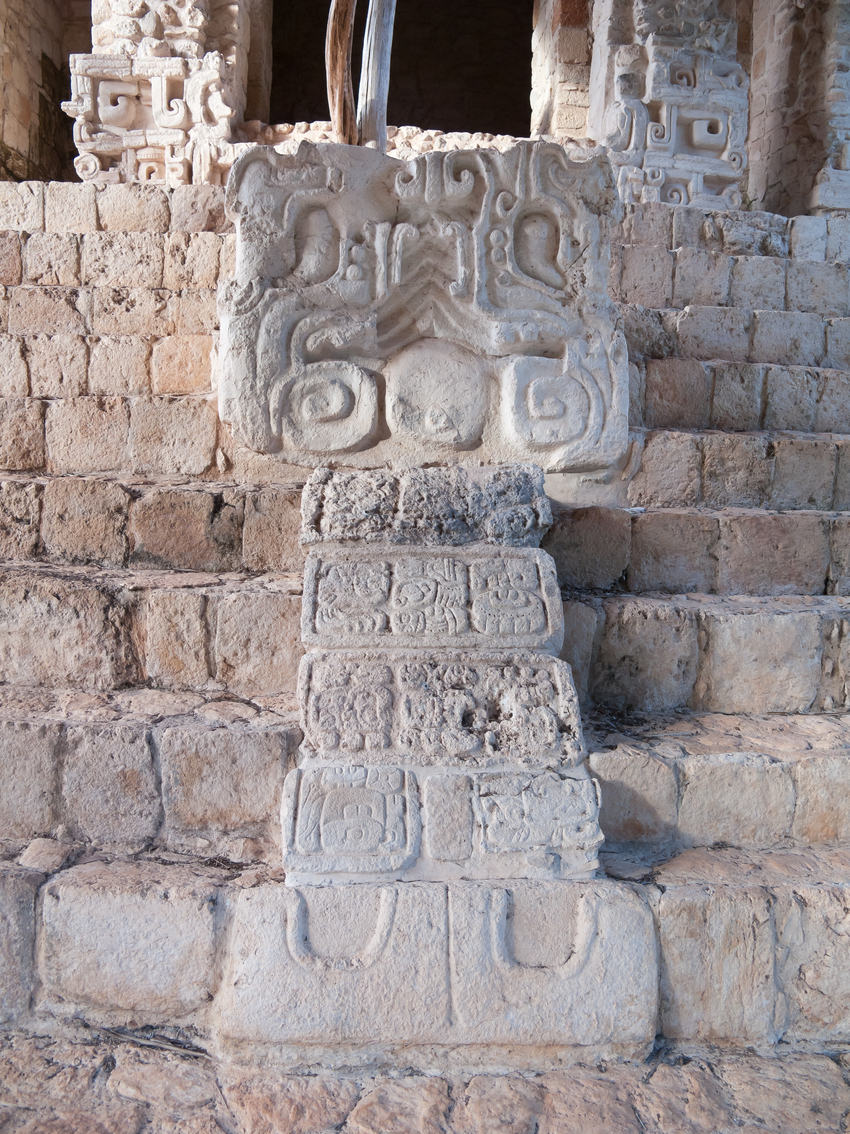 Head of serpent with Mayan writing, Ek' balam